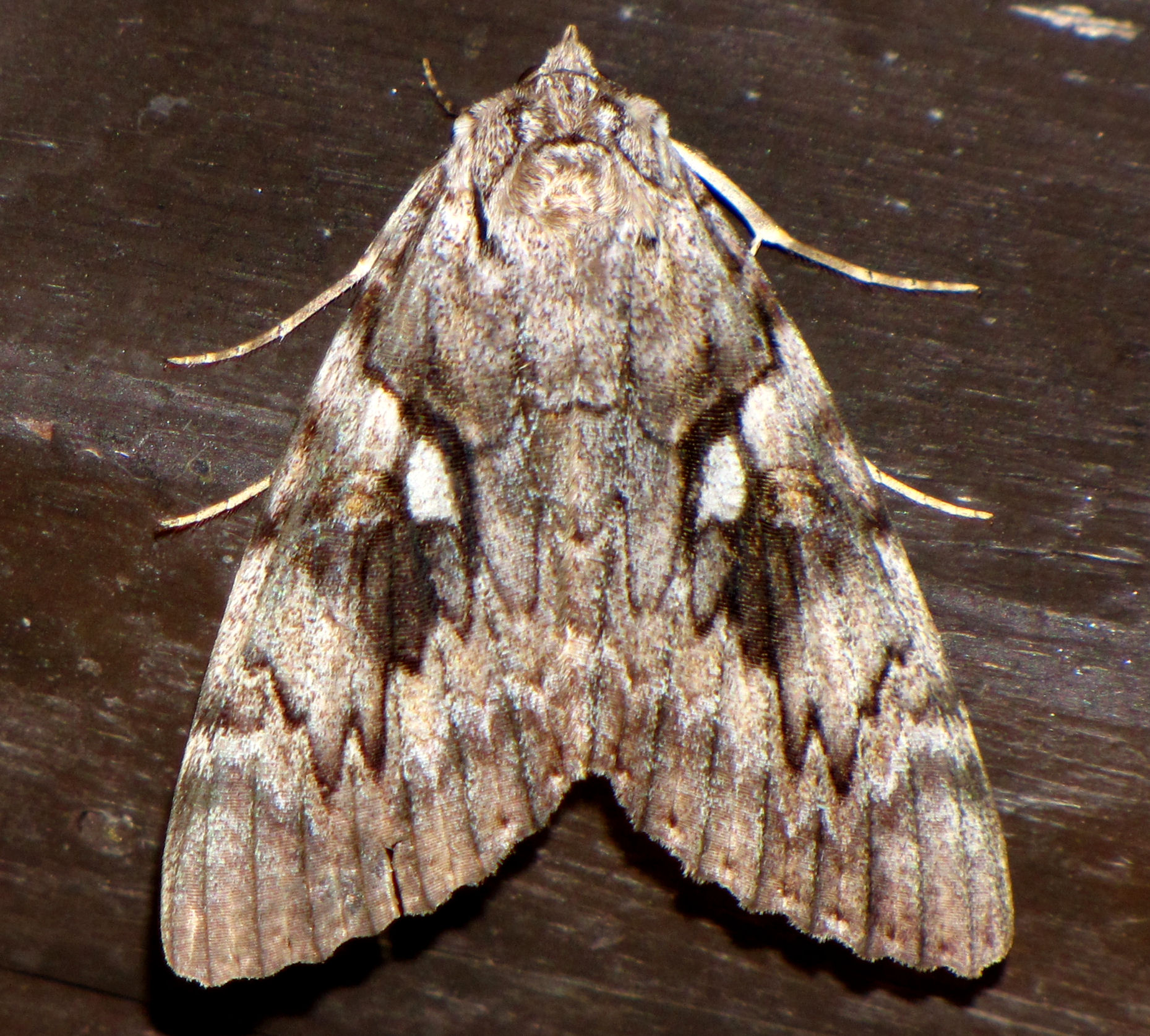 Yellow-banded Underwing (Catocala cerogama), Cantley, Quebec, Canada